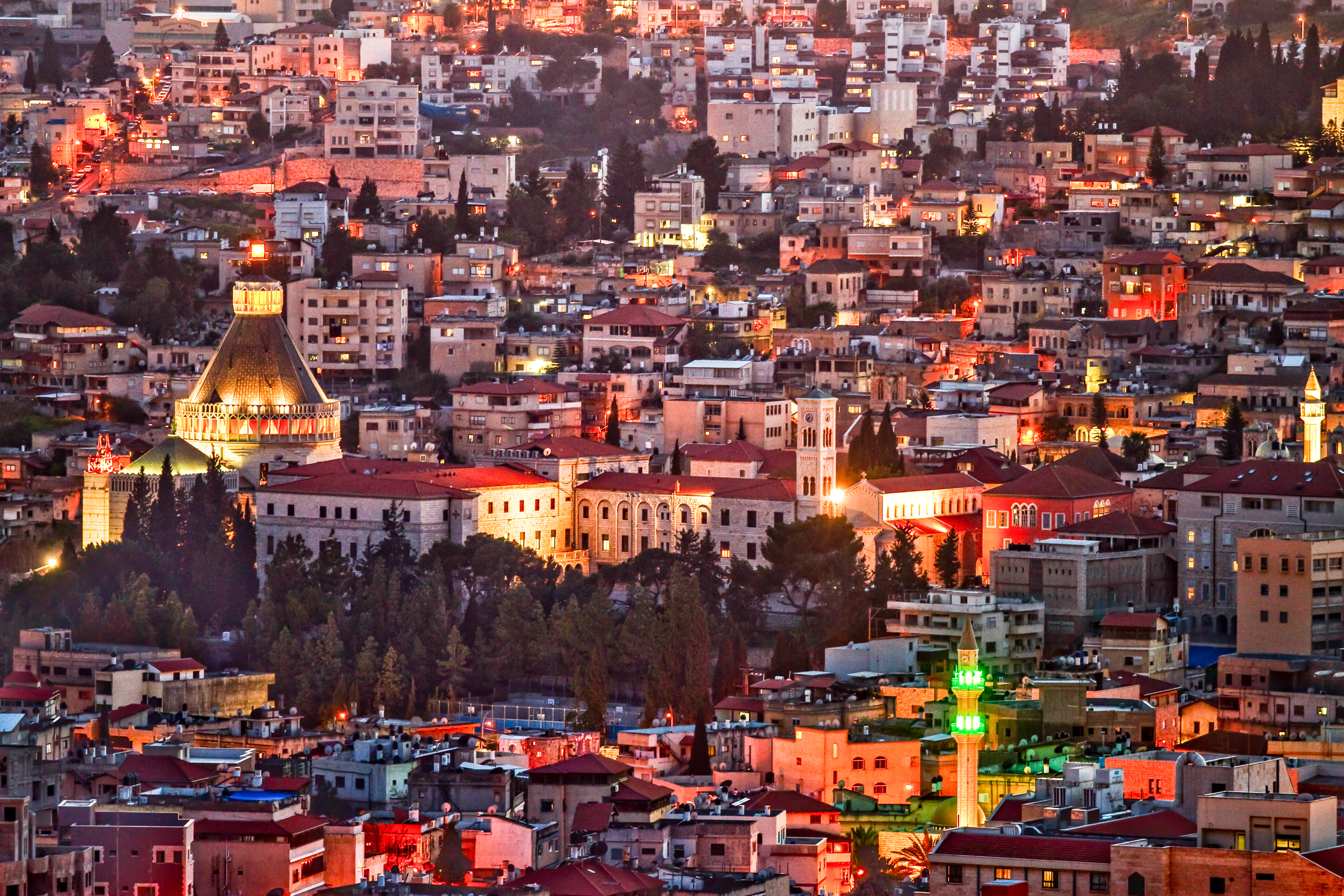 כנסיית הבשורה נצרת